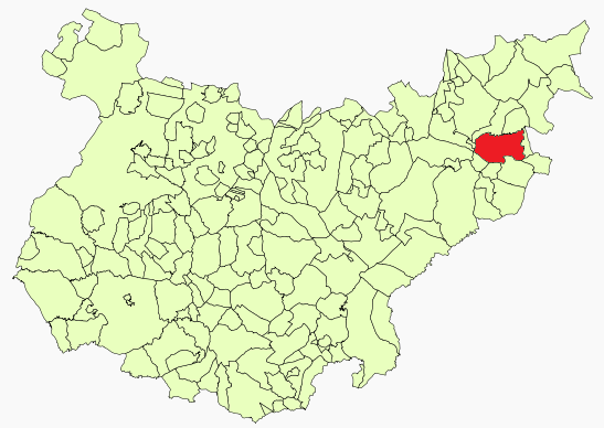 Siruela